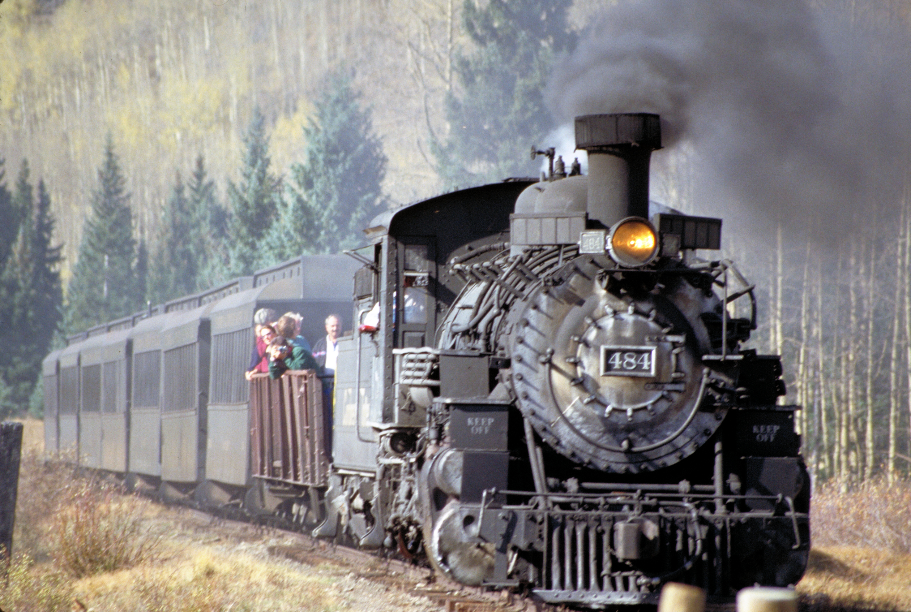 Steam locomotive of the Cumbres and Toltec Scenic Railroad, Colorado, USA